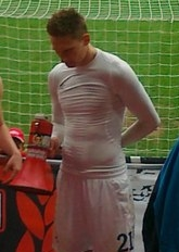 Milan Skoda